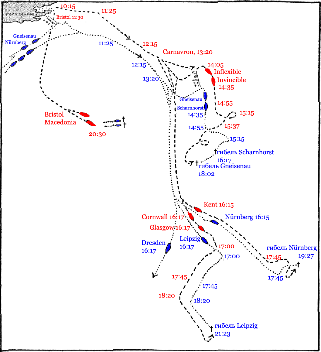 Map showing British and German ships and movements at the Battle of the Falkland Iskands, 8 December 1914. Russian version.